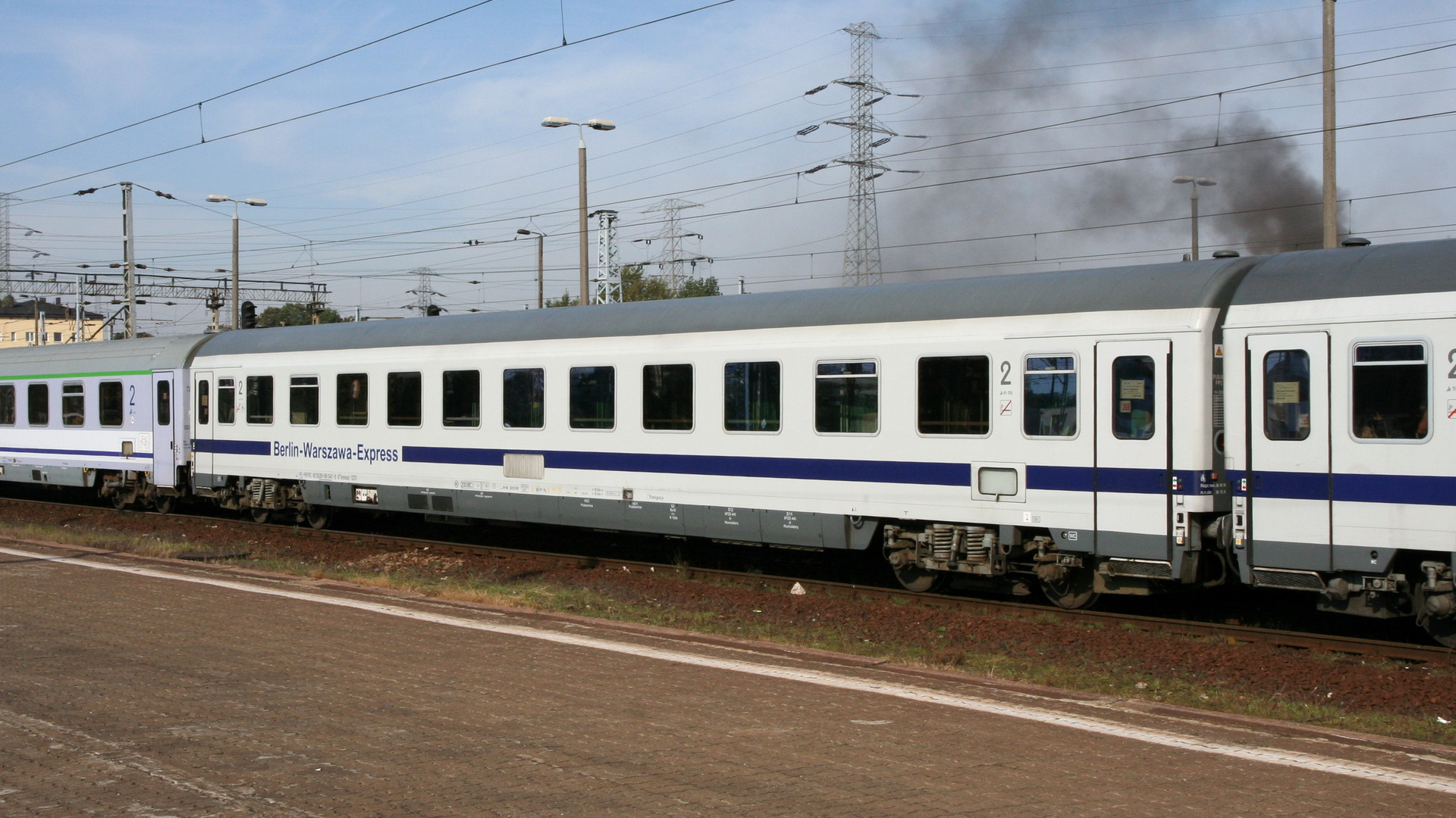 PL-PKPIC 61 51 20-90 041-5 B10bmnouz type ABB Z1-BN EC 44 BWE (W-wa Wsch. - Berlin Hbf.) 18.09.2011 Warszawa Zachodnia